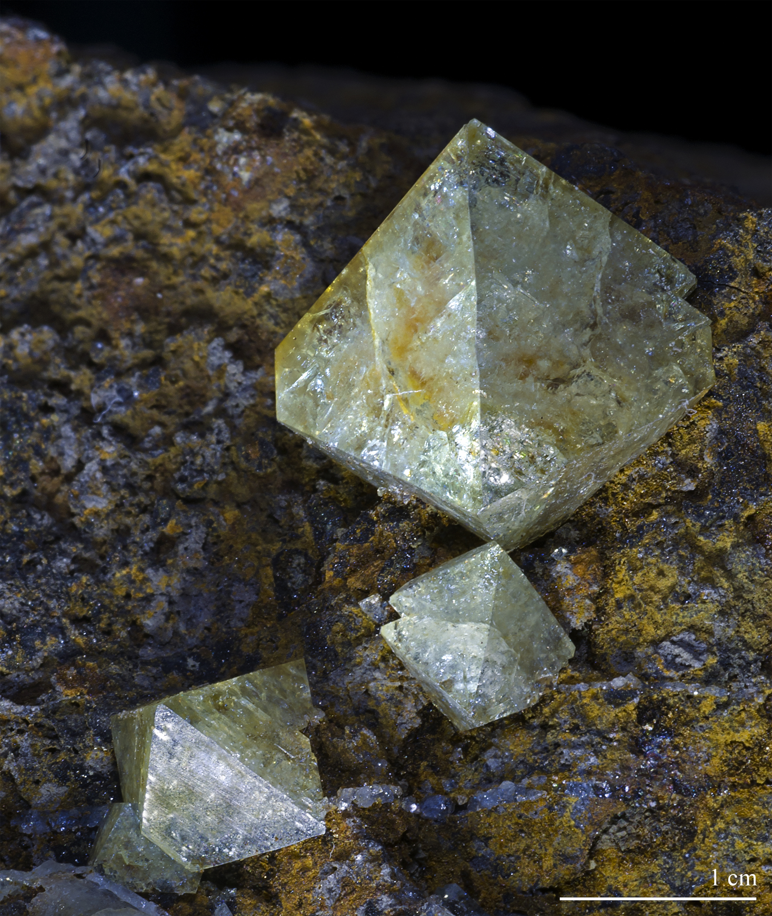 Wardite Locality:Rapid Creek, Dawson Mining District, Yukon Territory, Canada